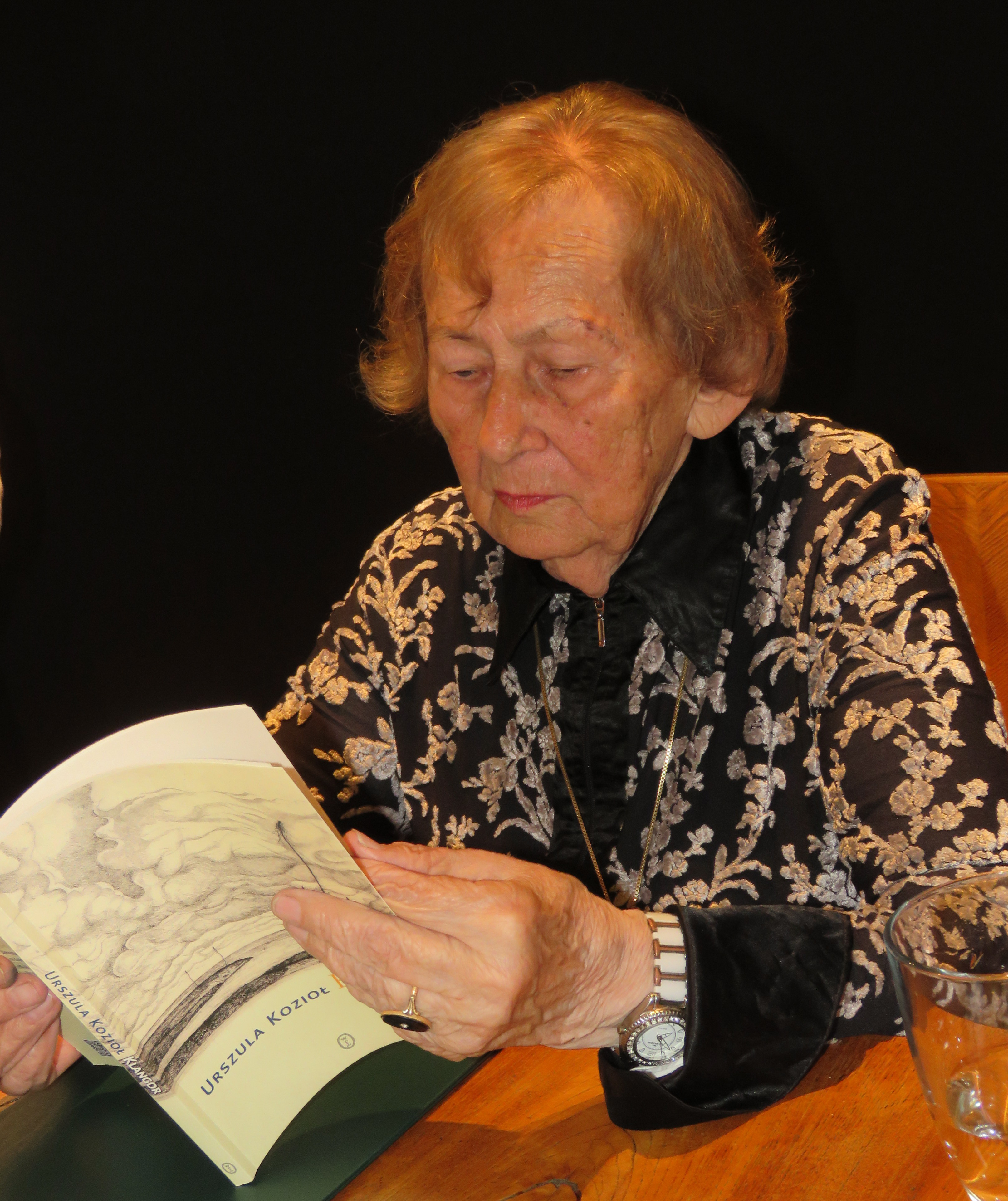 Urszula Koziol (b. Juni 20, 1931 in Rakowka, Poland) - Polish writer. She lives in Wroclaw, Poland